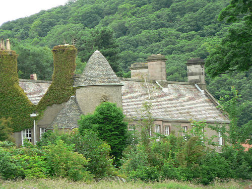 Hethpool house Taken from Hethpool Mill